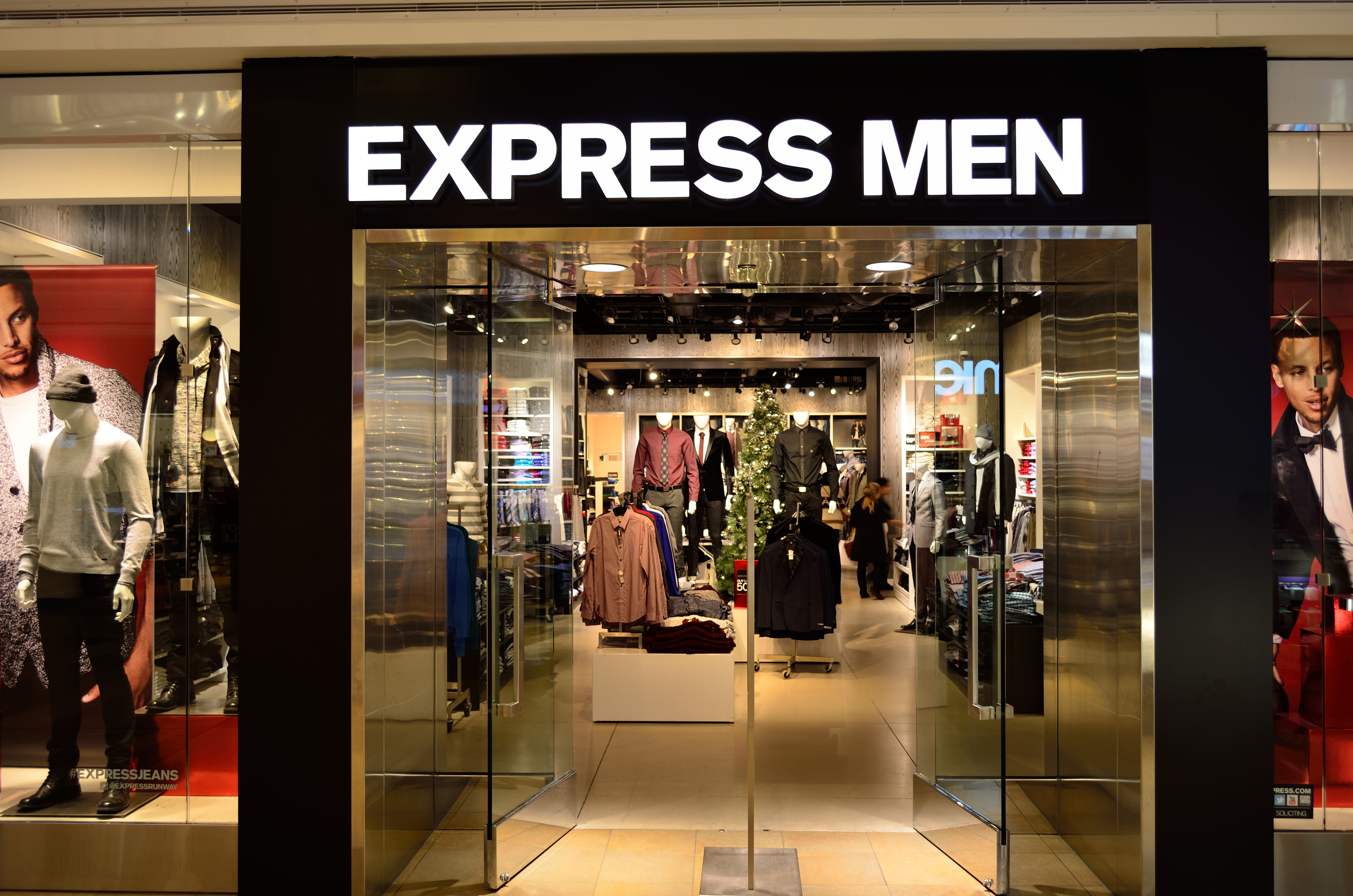 Express at Fairview Mall